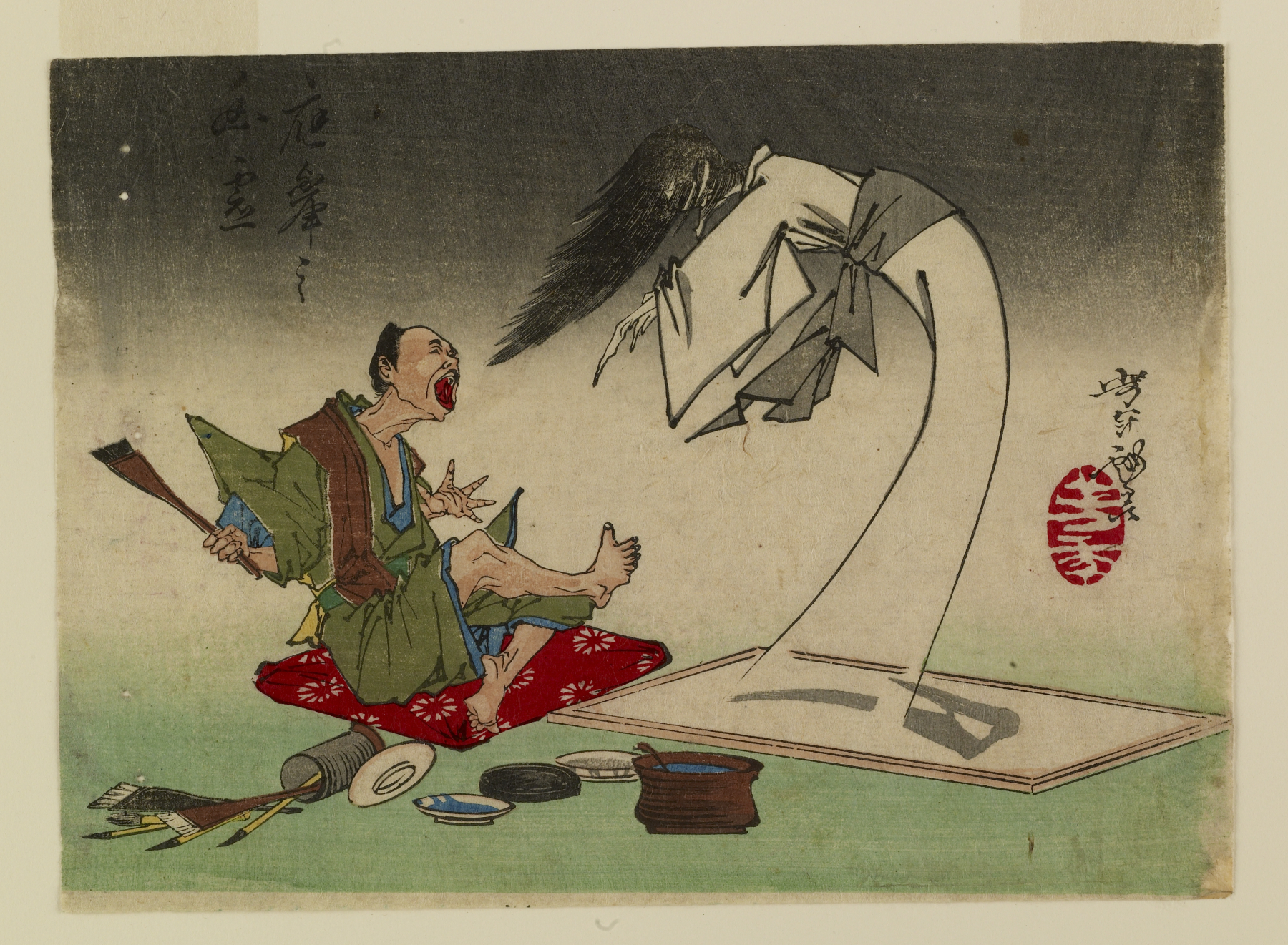 The famous Kyoto artist Maruyama Okyo was well known for his true-to-life paintings. It was said that his flower paintings were so real that bees tried to pollinate them. Another story, illustrated by this print, tells of the time Okyo painted a ghost so "realistically" that it came to life and frightened him.